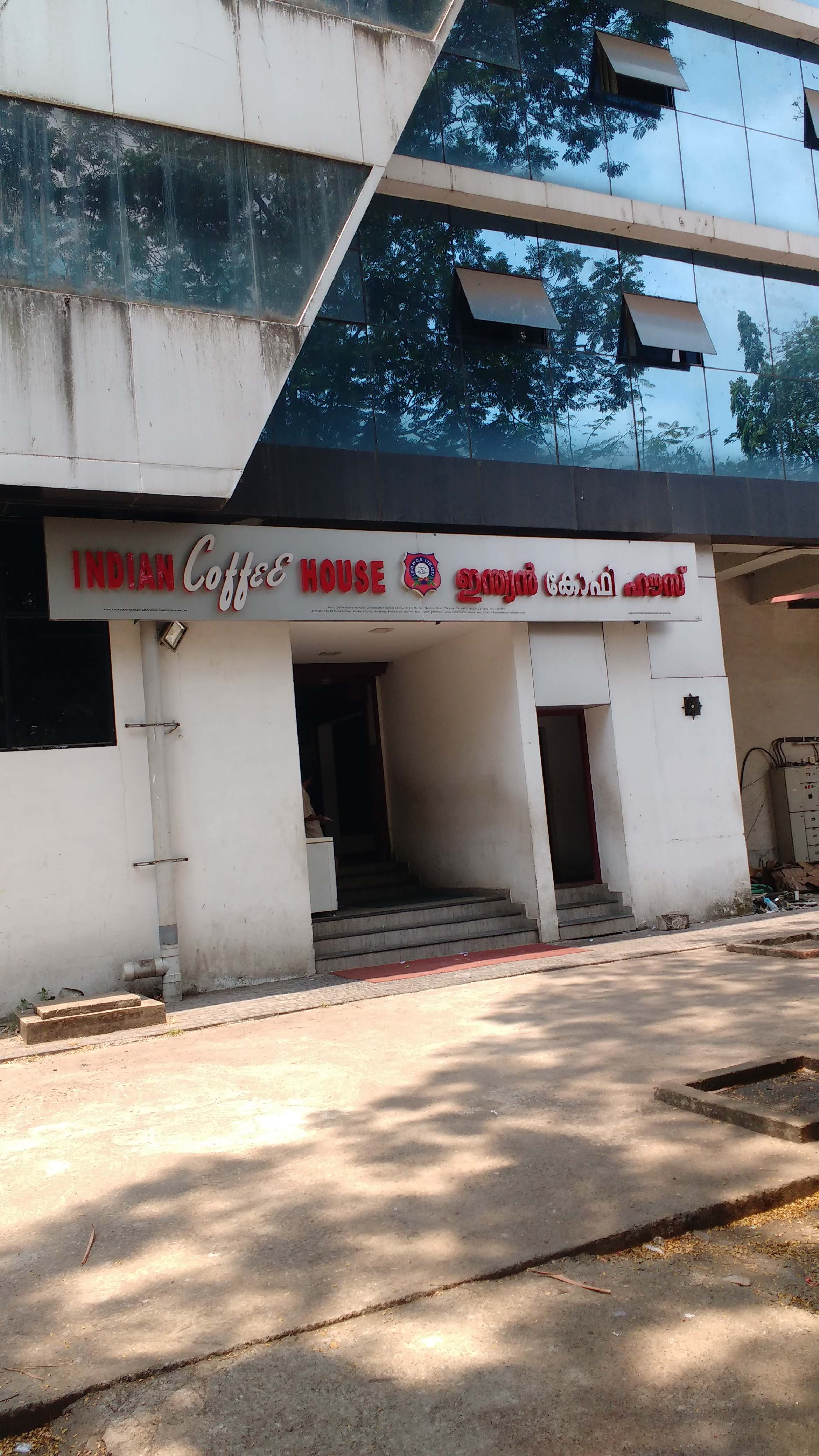 This is the image of Indian Coffee House at Ernakulam near High Court